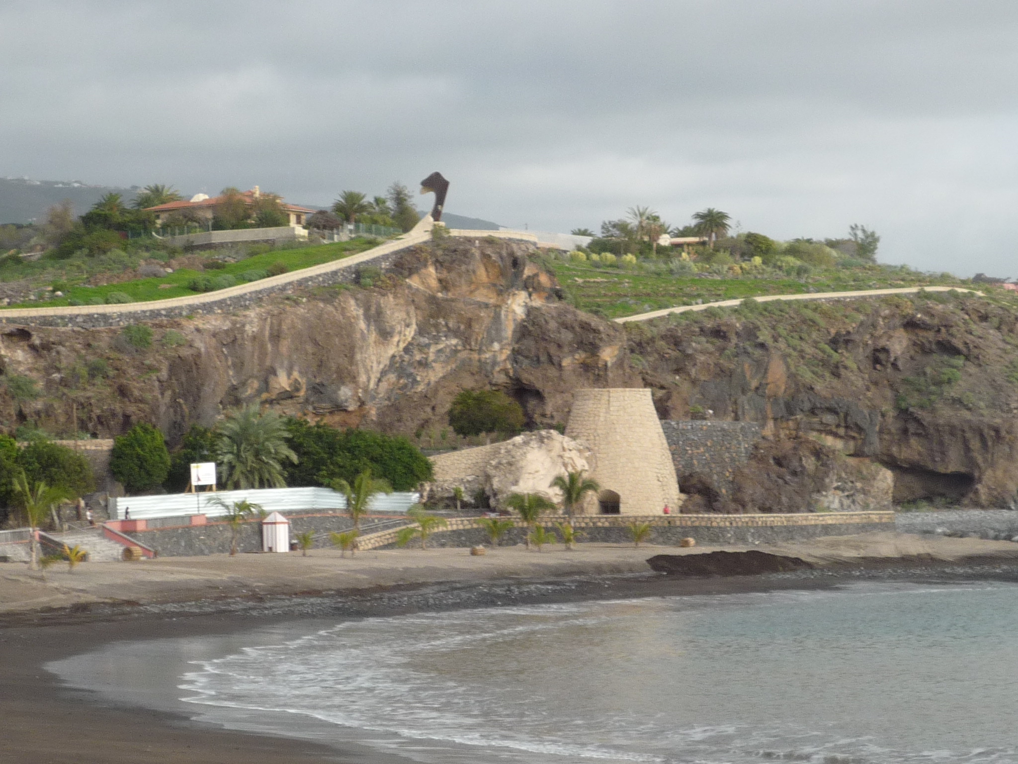 Looking east from the Avenida del Emigrante, Playa de San Juan, Guía de Isora municipio, Tenerife